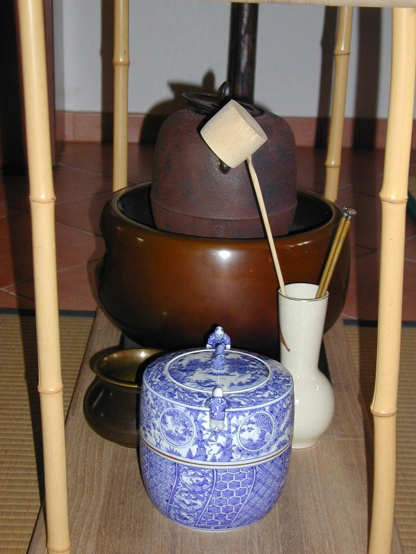 A set of implements for tea ceremony on take-daisu, a side view.